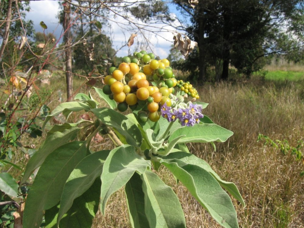 Fruit and flowers of the woolly nightshade